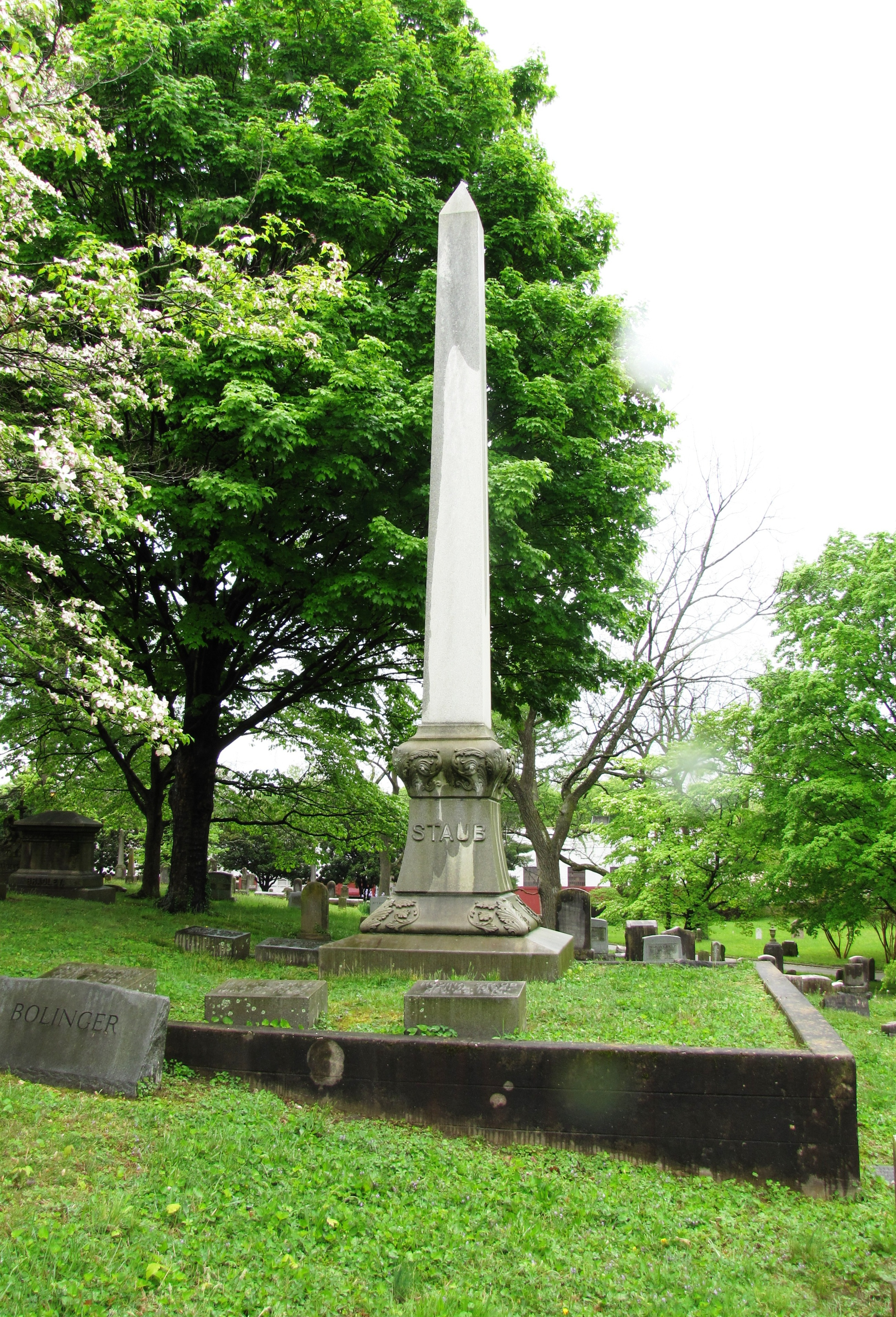 Monmument marking the plot of Swiss-born Knoxville businessman Peter Staub (1827–1904) and family. Staub's Theater, Knoxville's first opera house, was built by Staub in 1872. The theater stood where the Plaza Tower now stands on Gay Street.